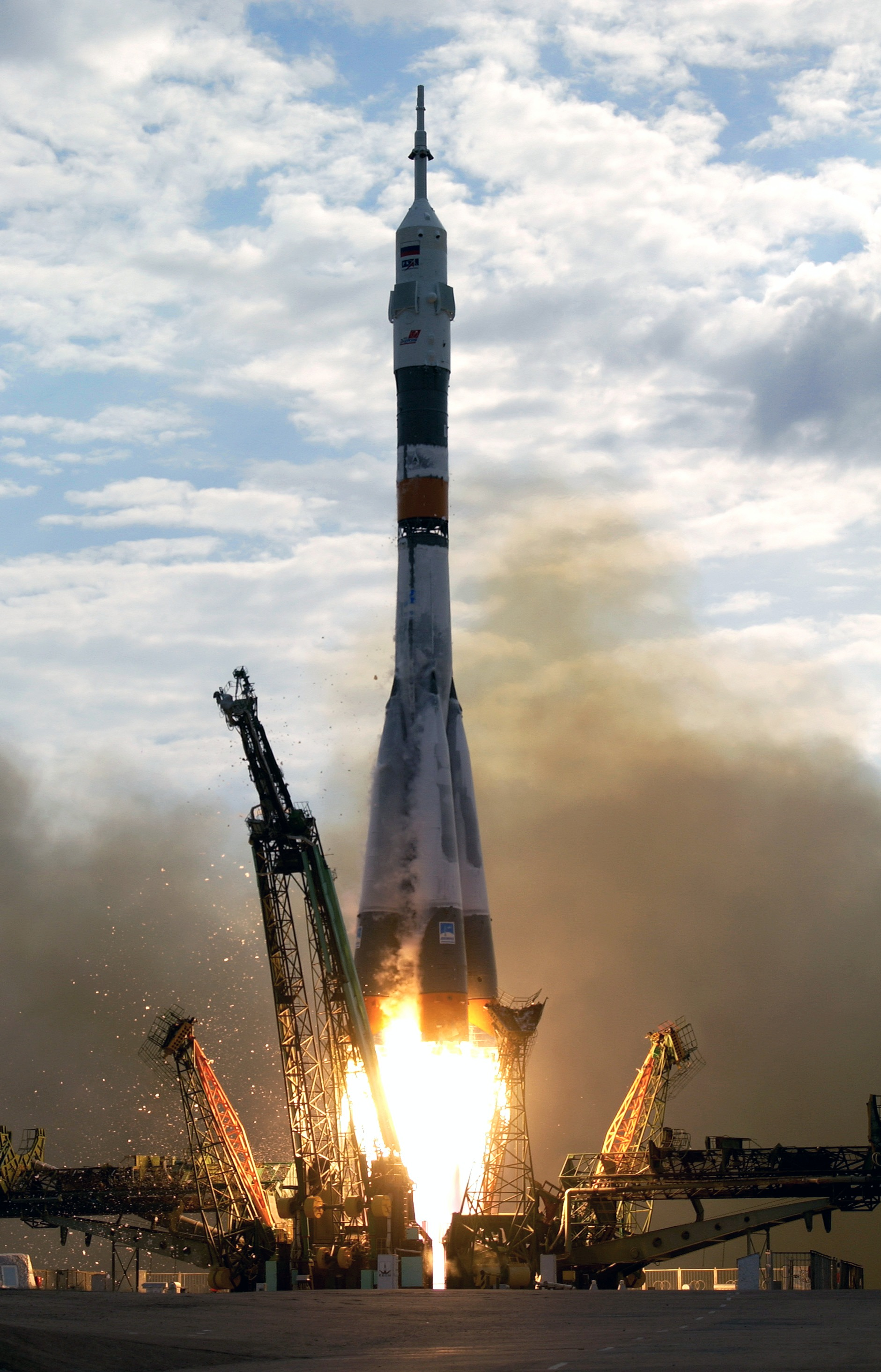 Launch of the Soyuz rocket carrying the Expedition 7 crew to the International Space Station.